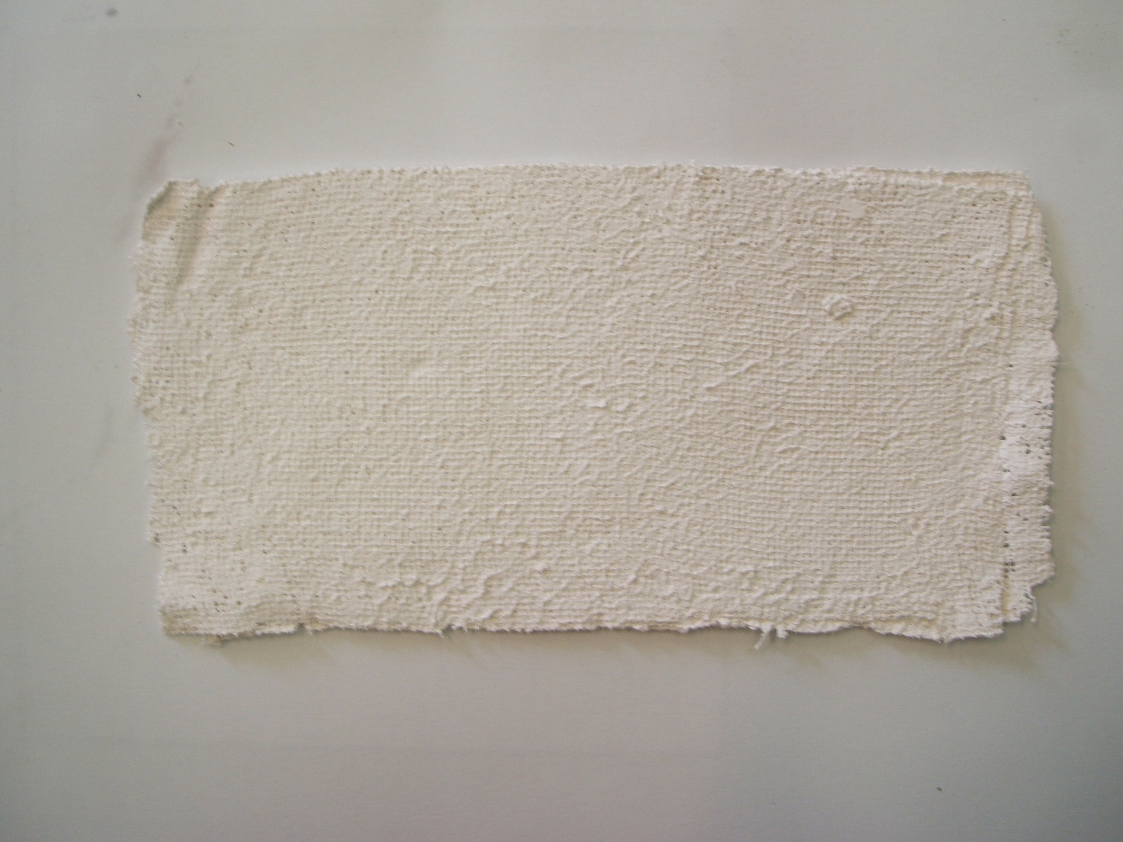 A flat sheet of Plaster of paris casting material 4 layers thick